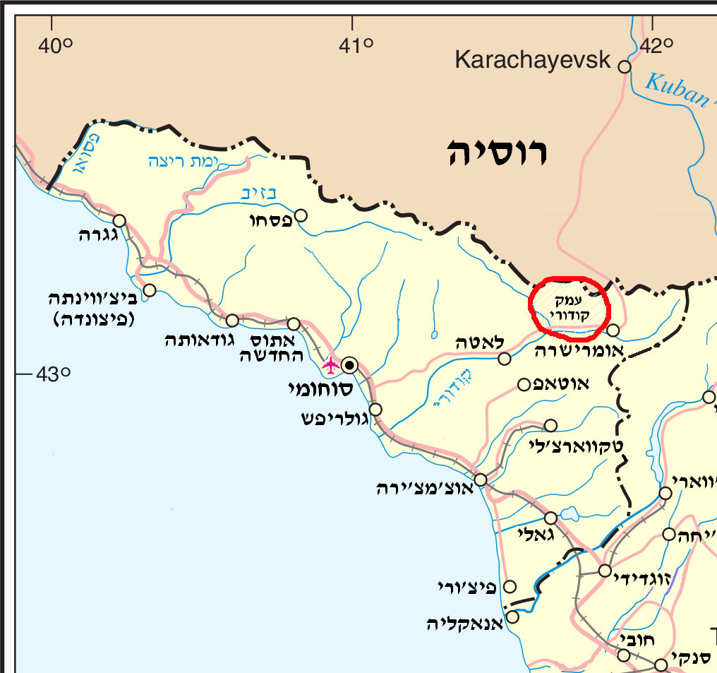 Map of Abkhazia, showing the Kodory Valley